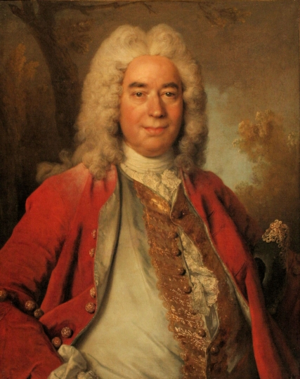 Philippe Néricault (1680–1754), known by his stage name of Destouches, French dramatist